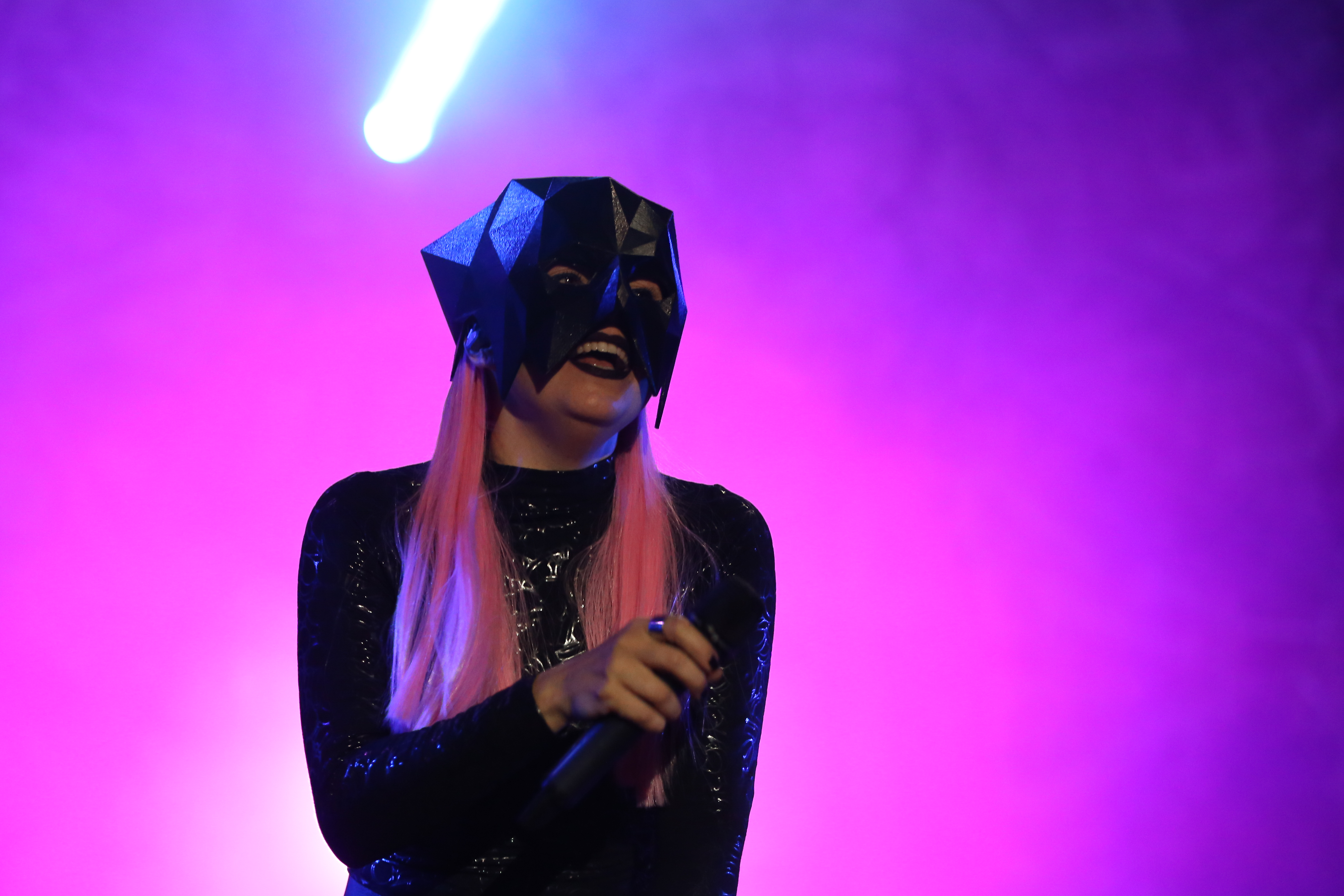 Pol'and'Rock Festival in 2019.